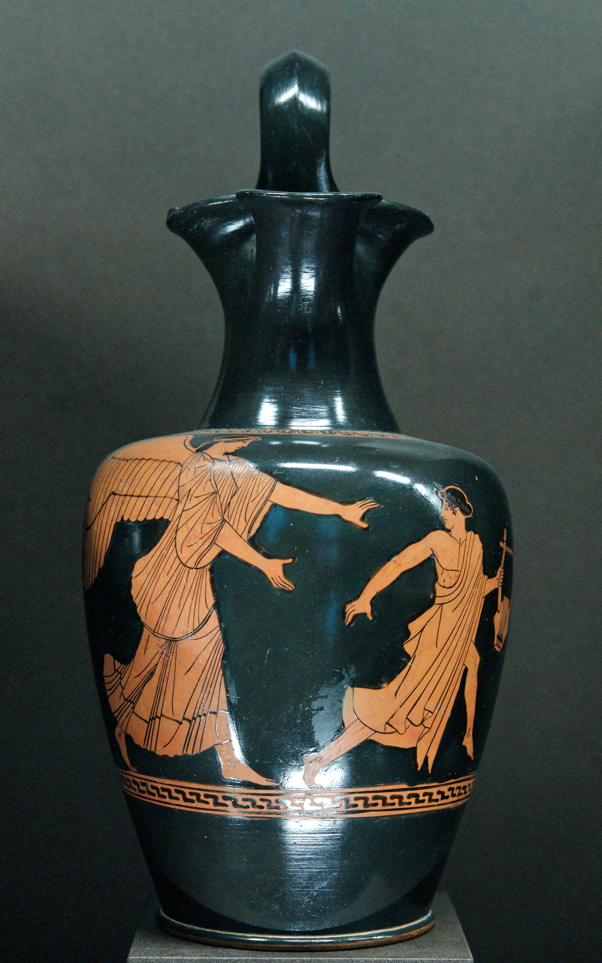 Eos (Dawn) pursuing Tithonus. Attic red-figure oinochoe, 470 BC–460 BC. From Vulci.